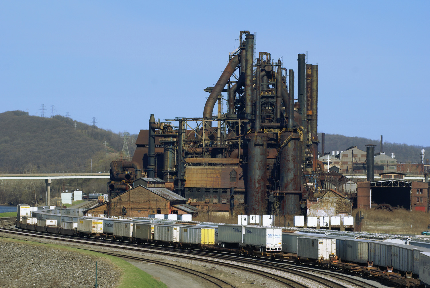 A view of the former Bethlehem Steel from the Fahy Bridge in Bethlehem, Pennsylvania. This photo was taken shortly before demolition began to make way for the Sands BethWorks casino project. Jschnalzer 23:29, 31 July 2007 (UTC)